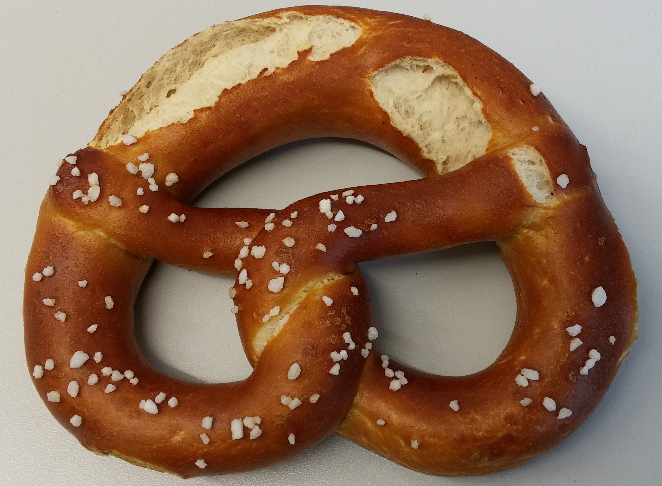 Breze, Brezn, Pretzel from Munich